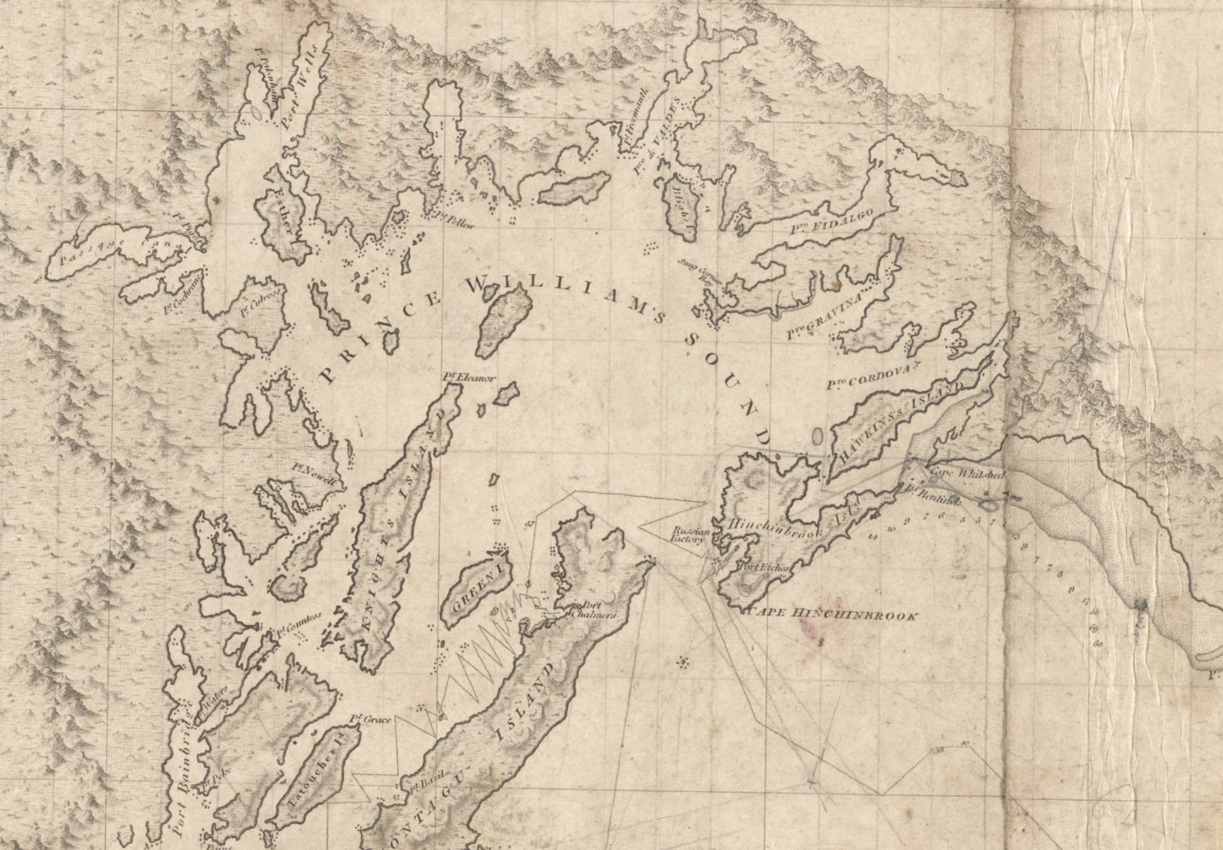 A 1798 chart of Prince William Sound including the track line of HMS Discovery and HMS Chatham. Cropped from the original, which also shows the coast east to Mt St Elias. Published as " Chart shewing part of the coast of N. W. America, with the tracks of His Majesty's sloop Discovery and armed tender Chatham." by J. Edwards & G. Robinson, London, in 1798.